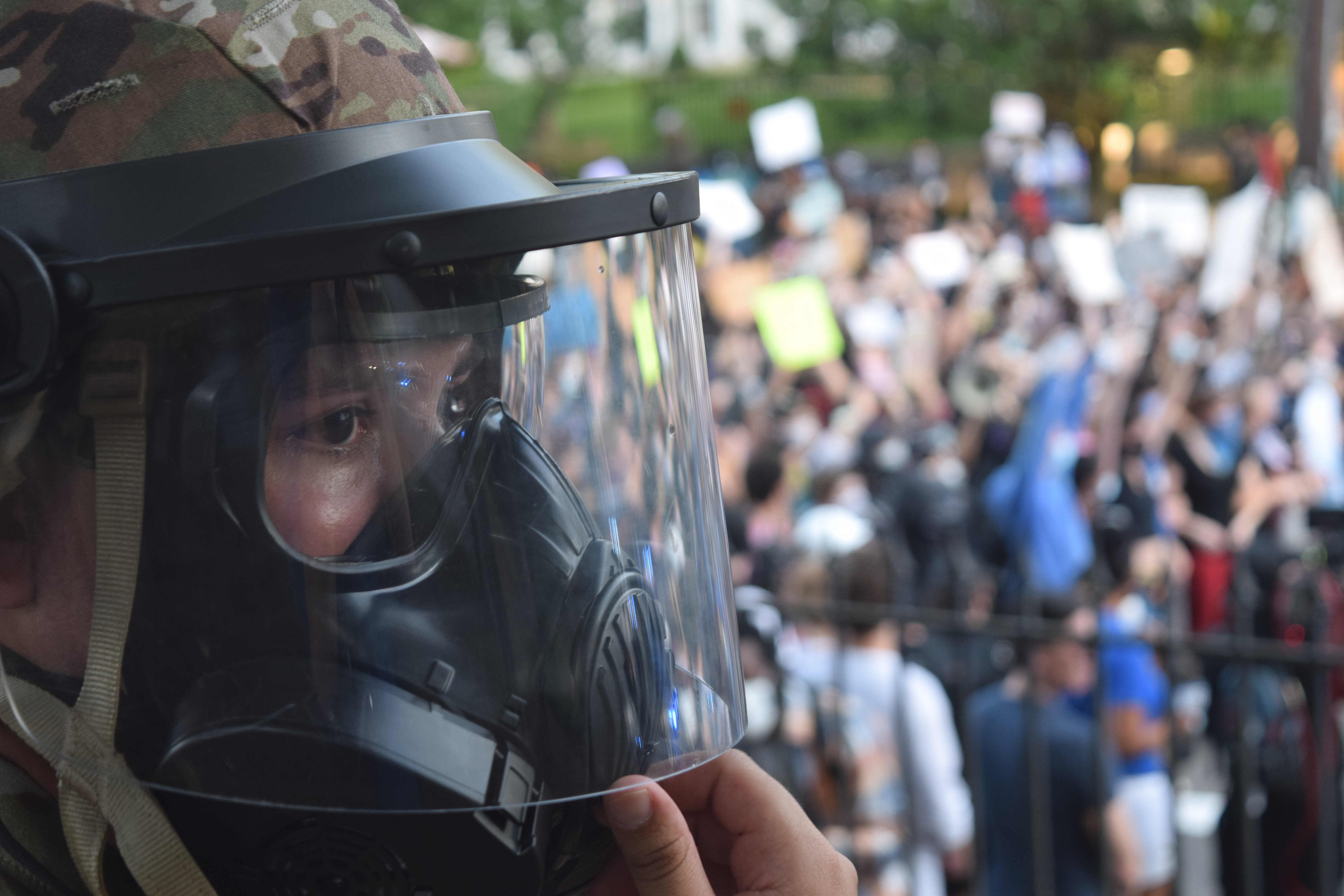 A Georgia National Guard Soldier of the Monroe-based 178th Military Police Company observes a protest in Atlanta May 30, 2020. (U.S. National Guard photo by Maj. William Carraway)